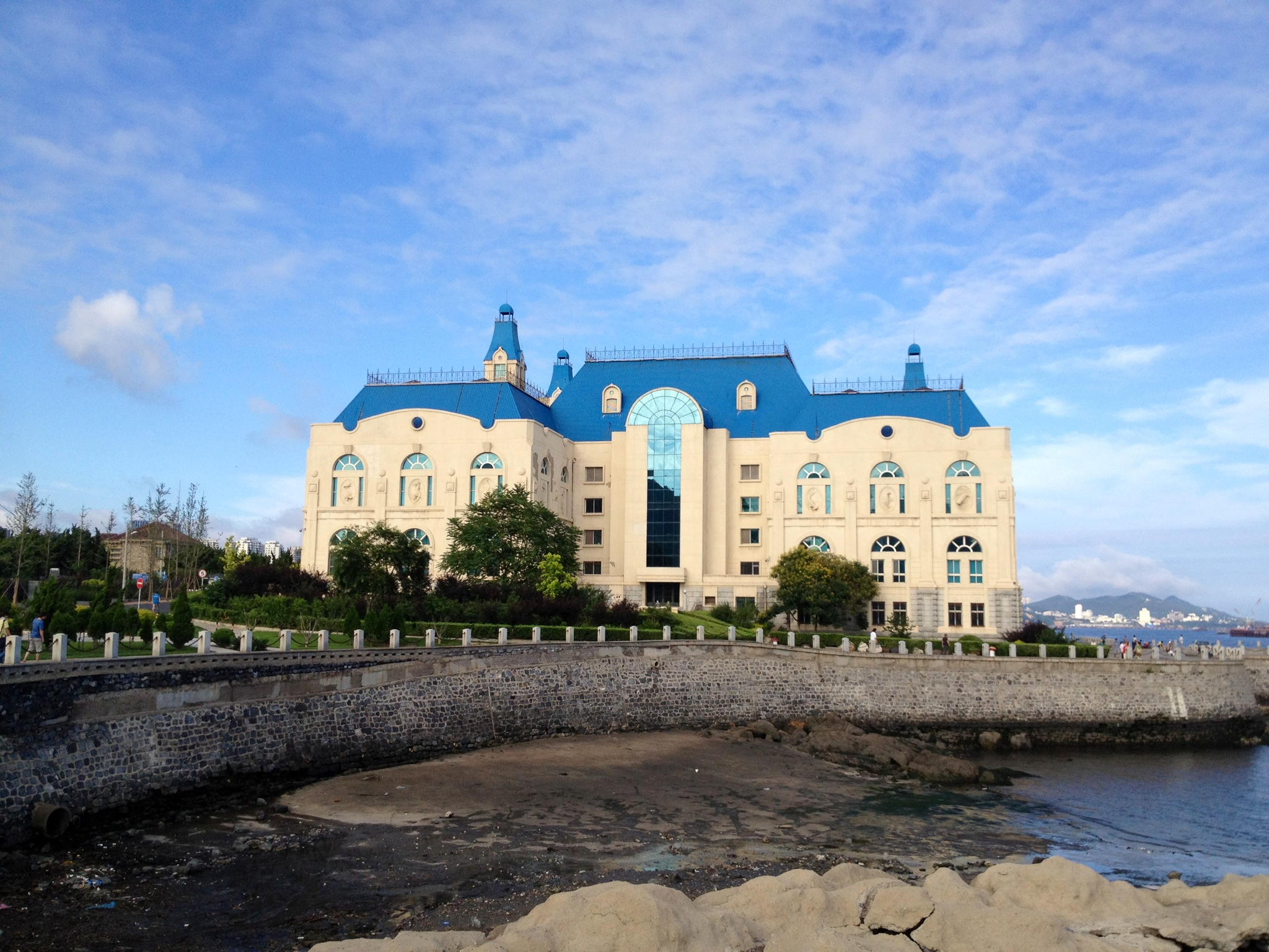 Dalian Nature History Museum